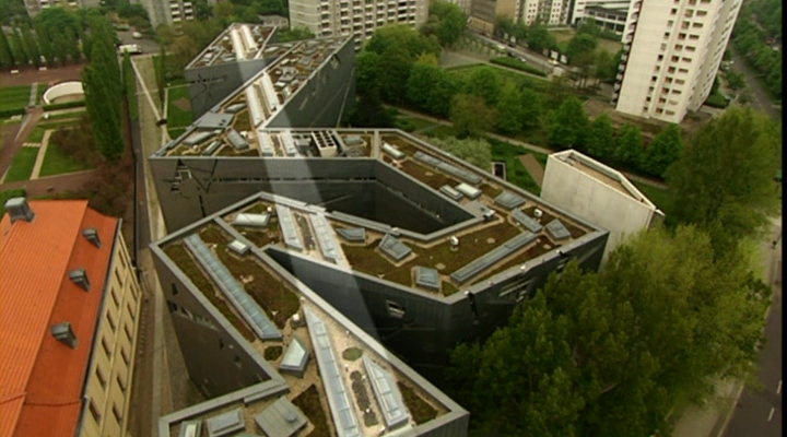 Jewish Museum, Berlin, Skylights,Architecture